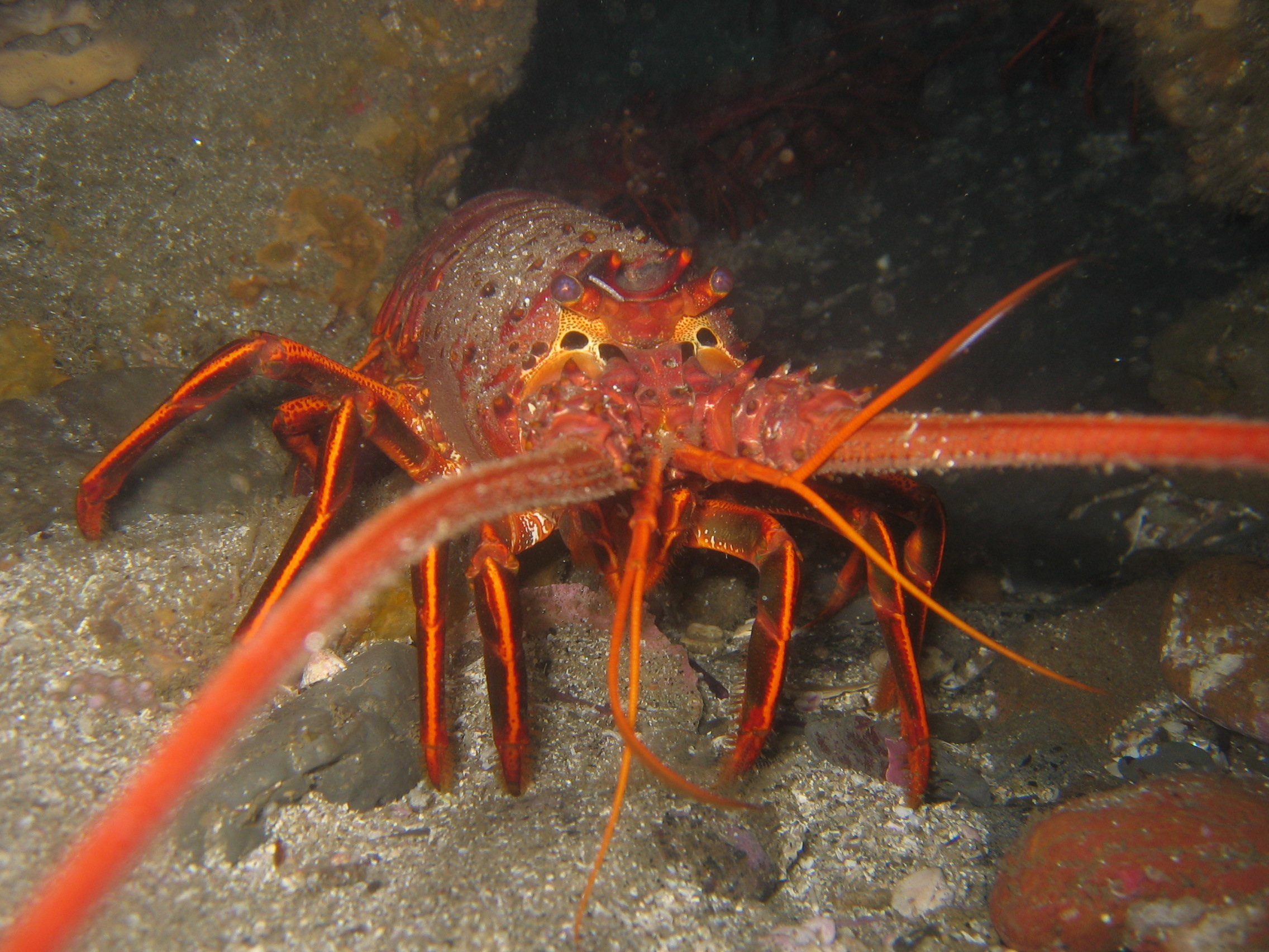 California spiny lobster (Palinurus interruptus). Picture taken by Magnus Kjærgaard in La Jolla, California.